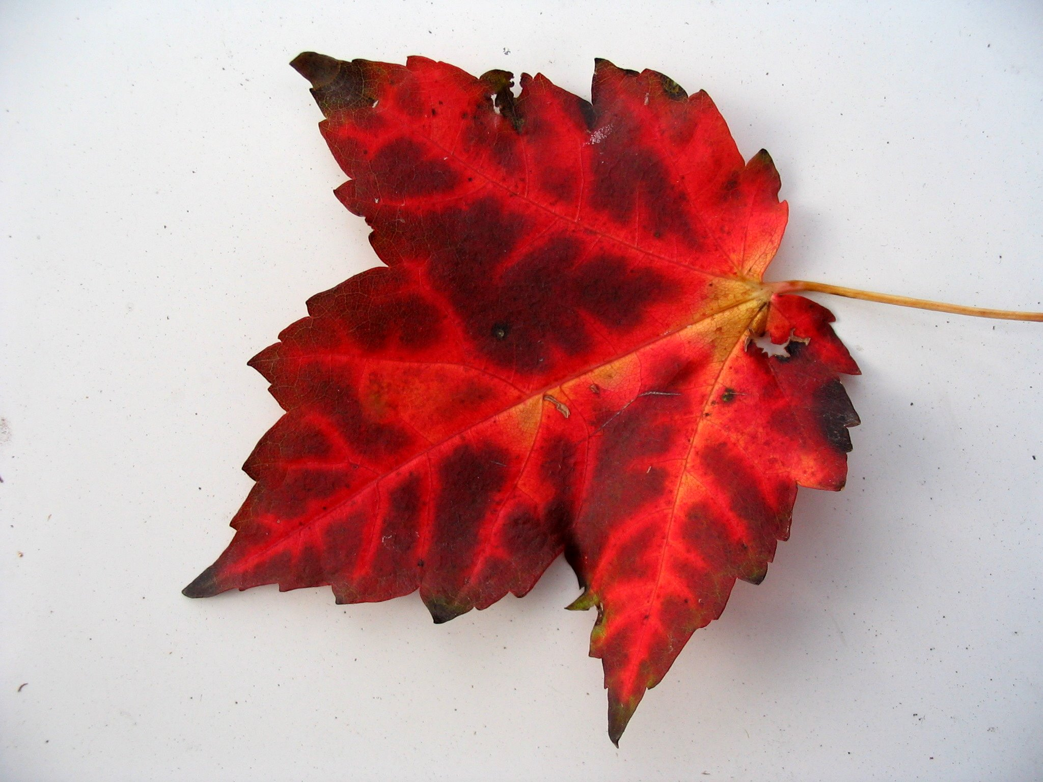 Taken November, 2005 in Sylvania, Ohio, USA. And that's why they call it Red Maple.